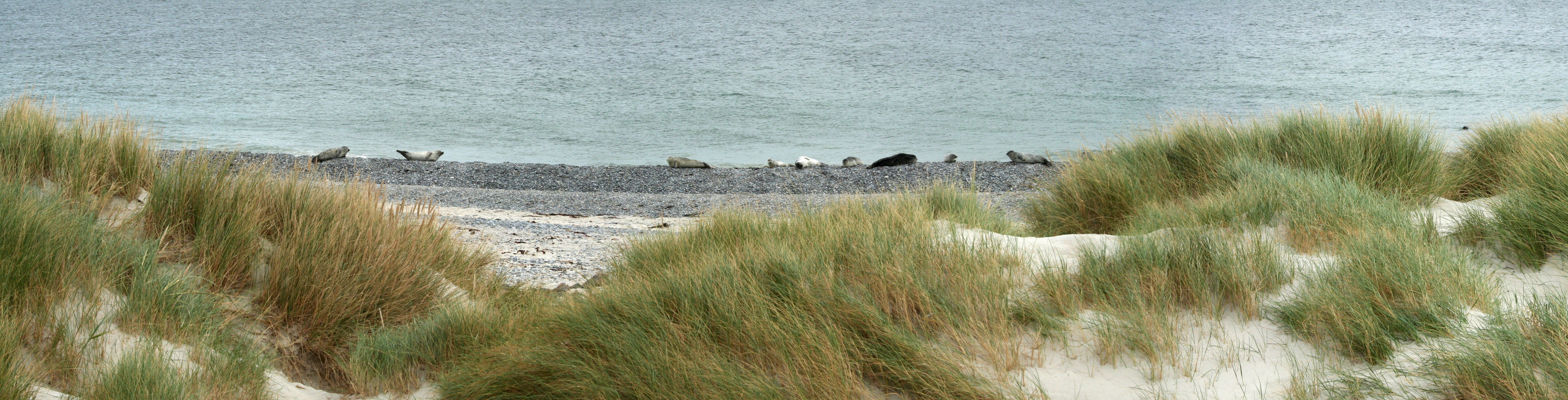 Heligoland, Seals at the eastern seaside of the neighbouring island "Dune"